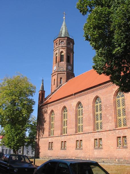 Neo-gothic church in Niemegk, built in 1853 according to plans by Friedrich August Stüler. The town Niemegk is a part of the Potsdam Mittelmark, state Brandenburg, Germany.